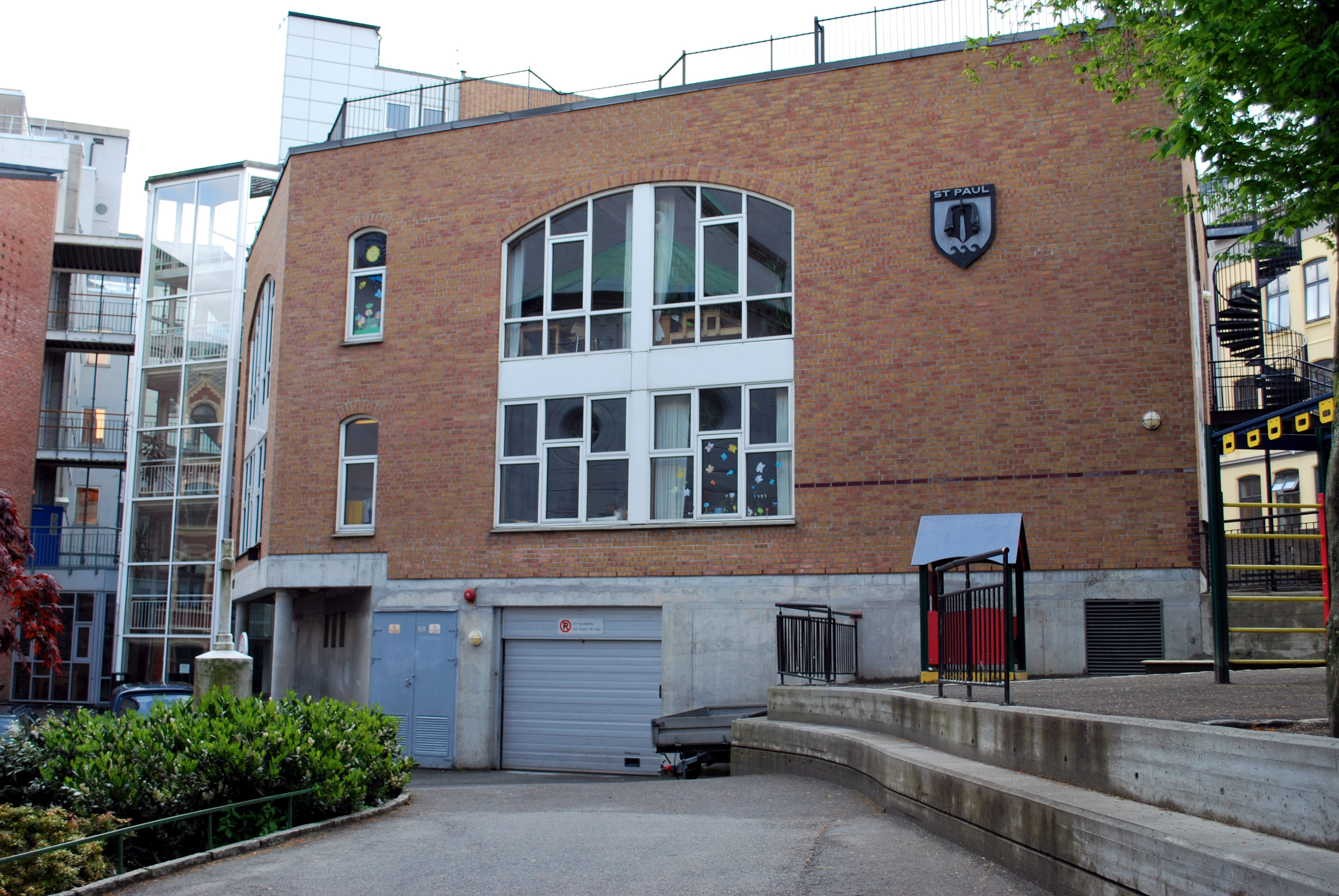 St. Paul skole, Bergen,. Norway.